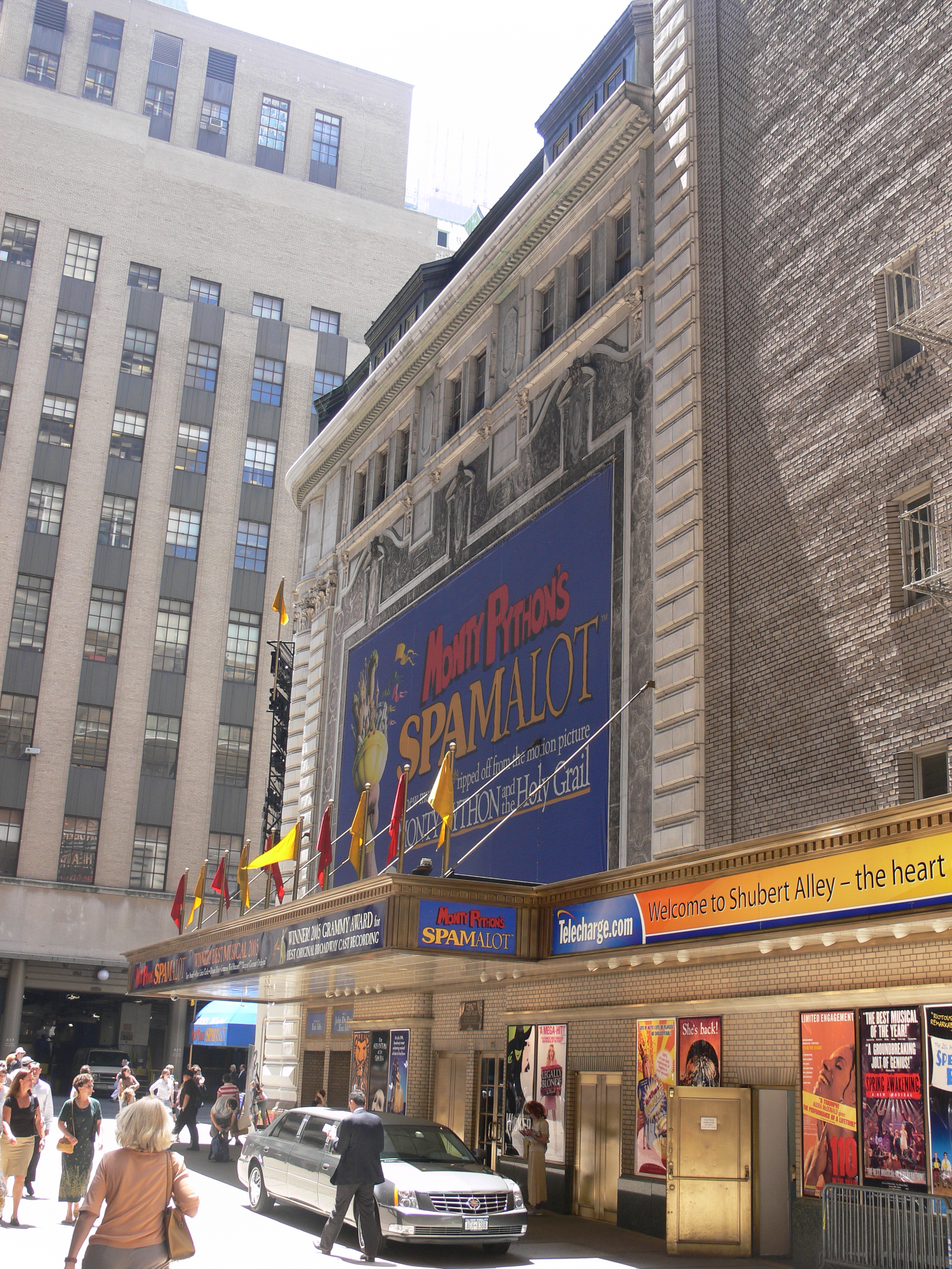 Shubert Theatre, showing Spamalot, seen from Shubert Alley (the building on the right is the Booth Theatre) 225 West 44th Street, Manhattan, New York City